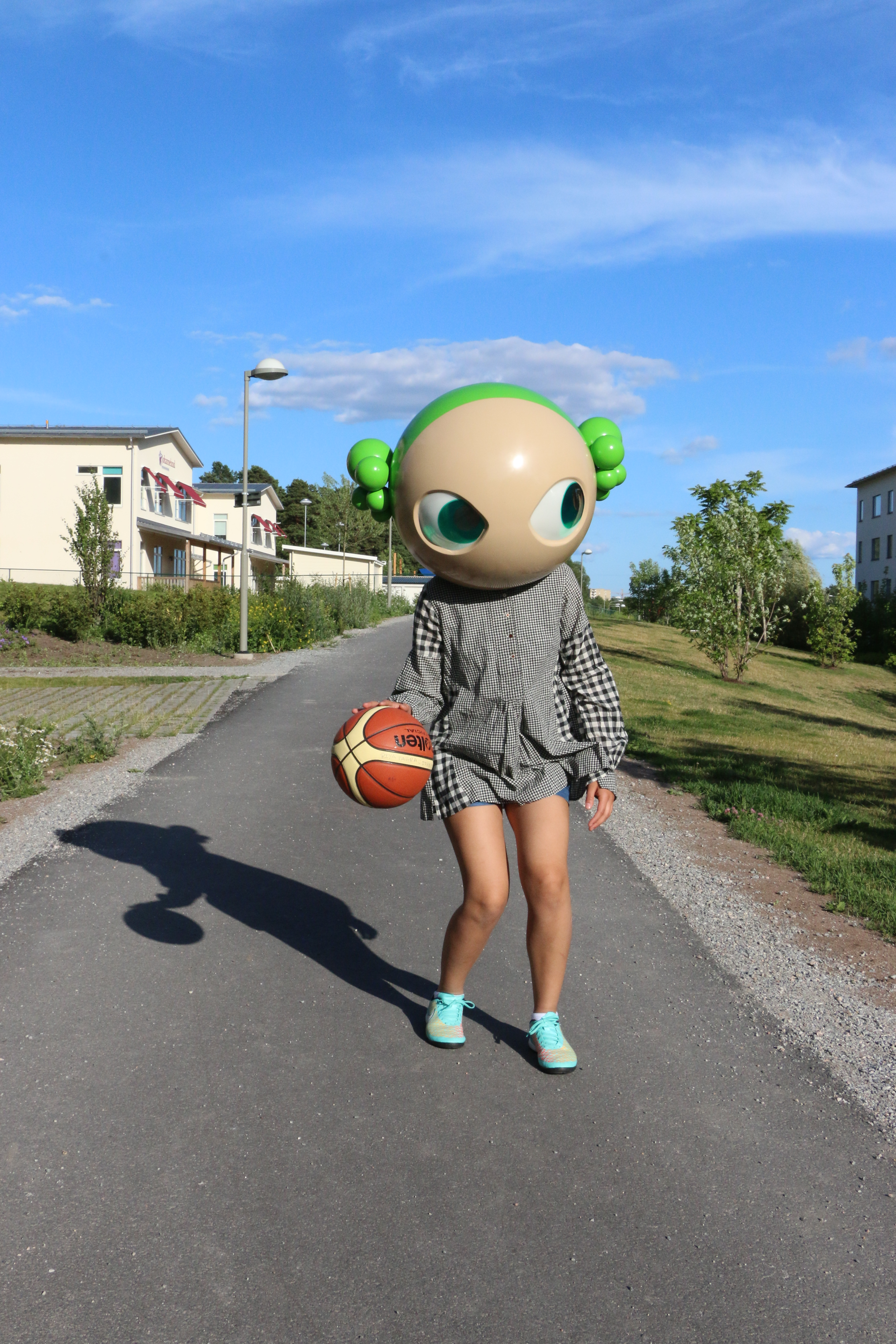 Anonymous girl princes pea